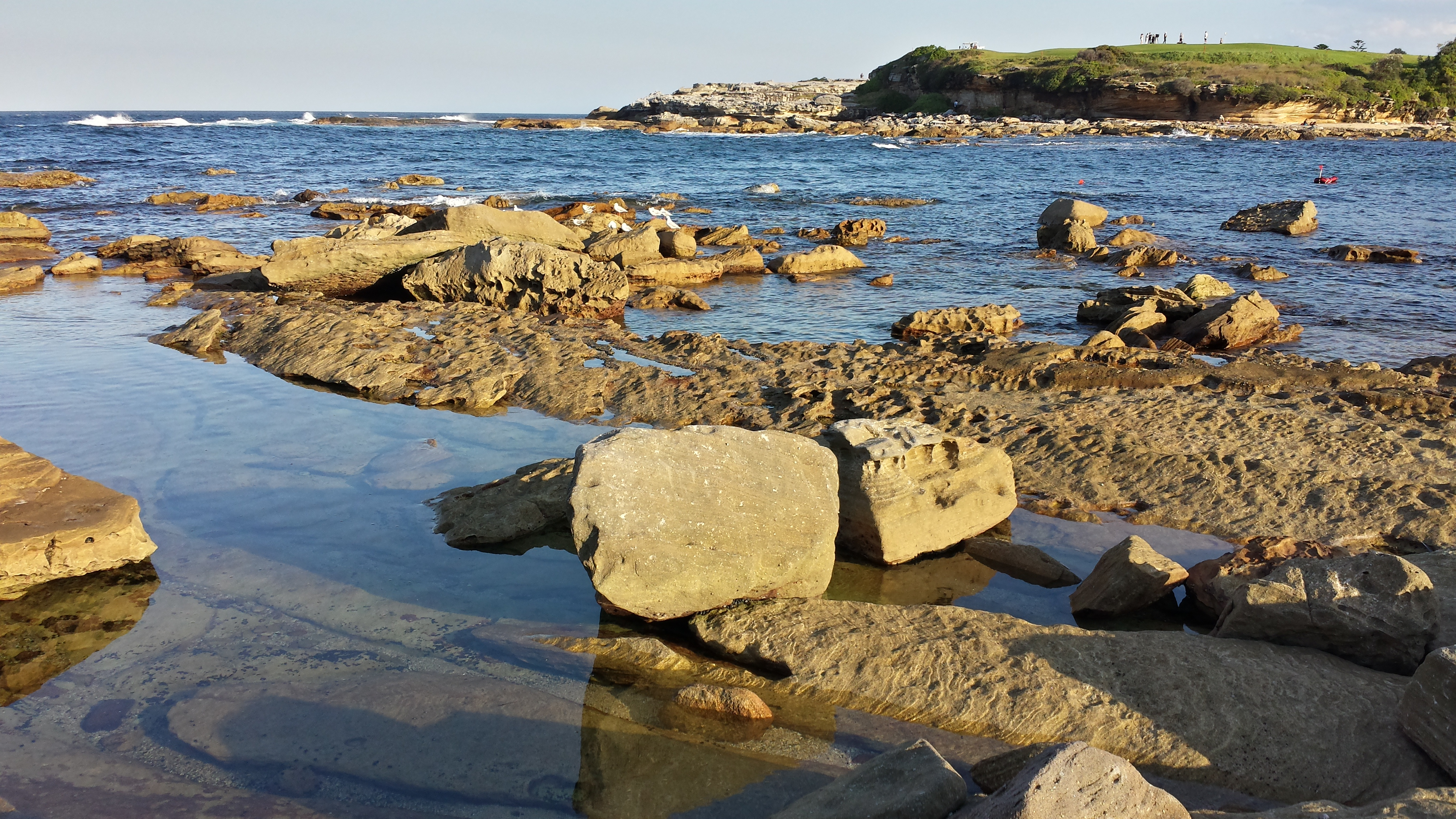 Little Bay Beach, New South Wales, Australia